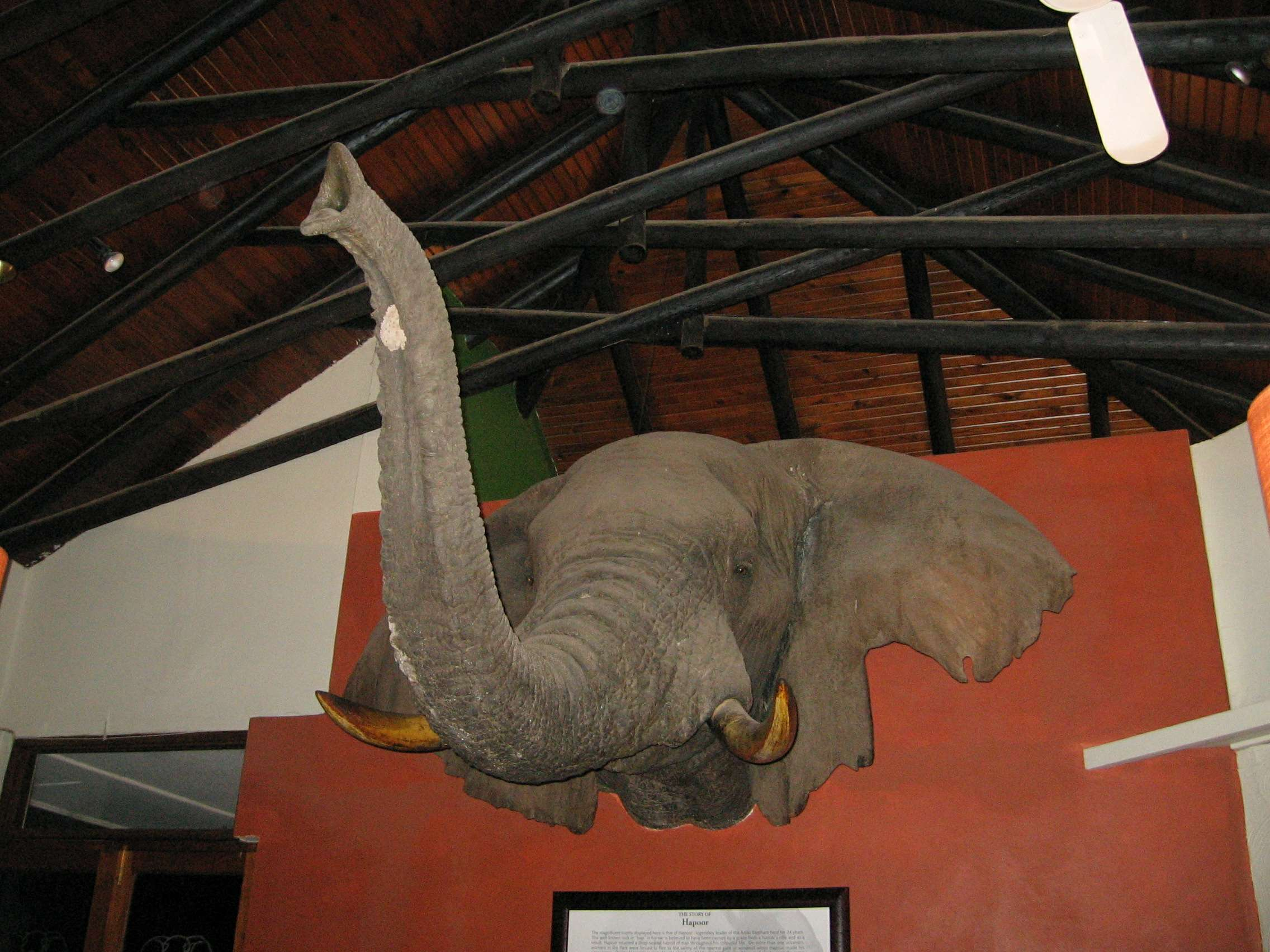 The head of the legendary elephant "Hapoor" hangs from the wall in the Addo National Park's main restaurant, South Africa